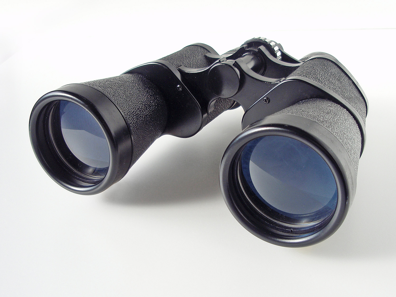 Binocular